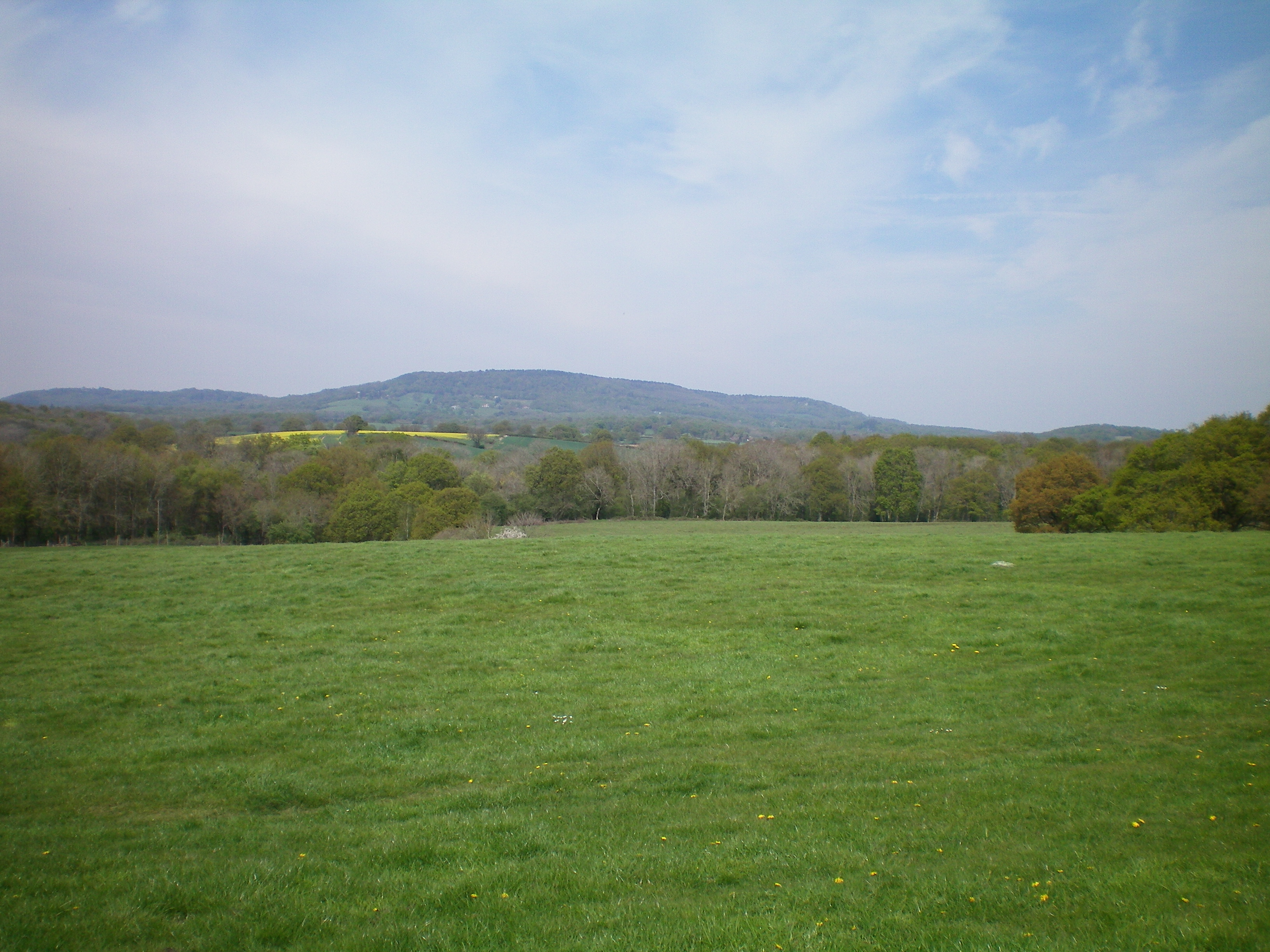 Blackdown seen from Upperton, West Sussex, England.